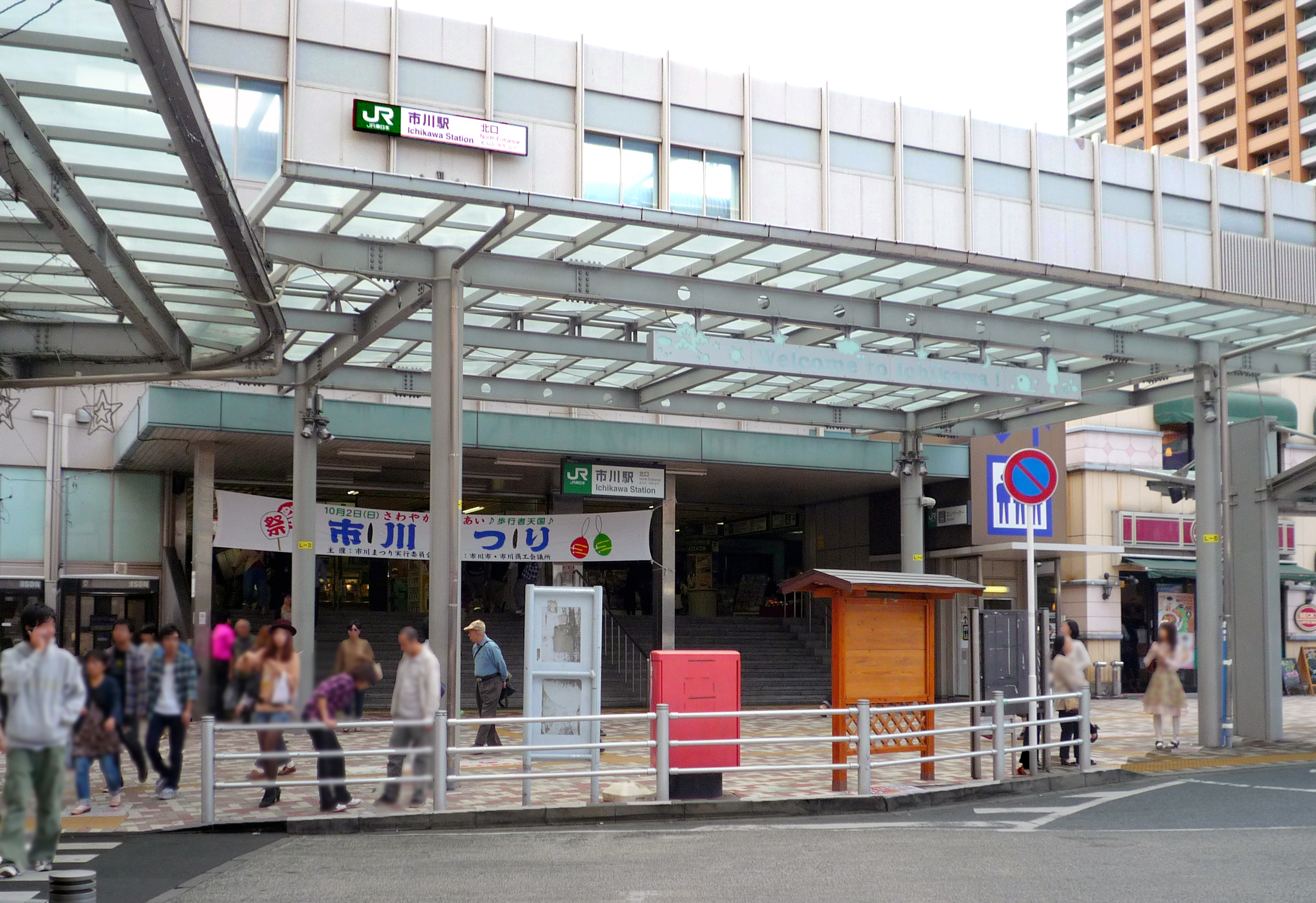 The north entrance of Ichikawa Station in Chiba Prefecture, Japan